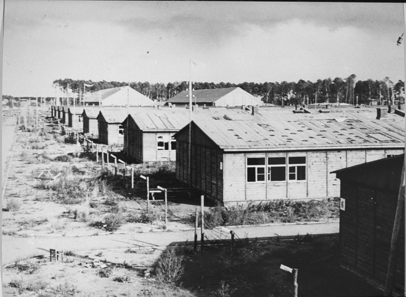 See title